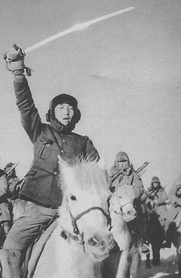 Hsingan Army Cavalry